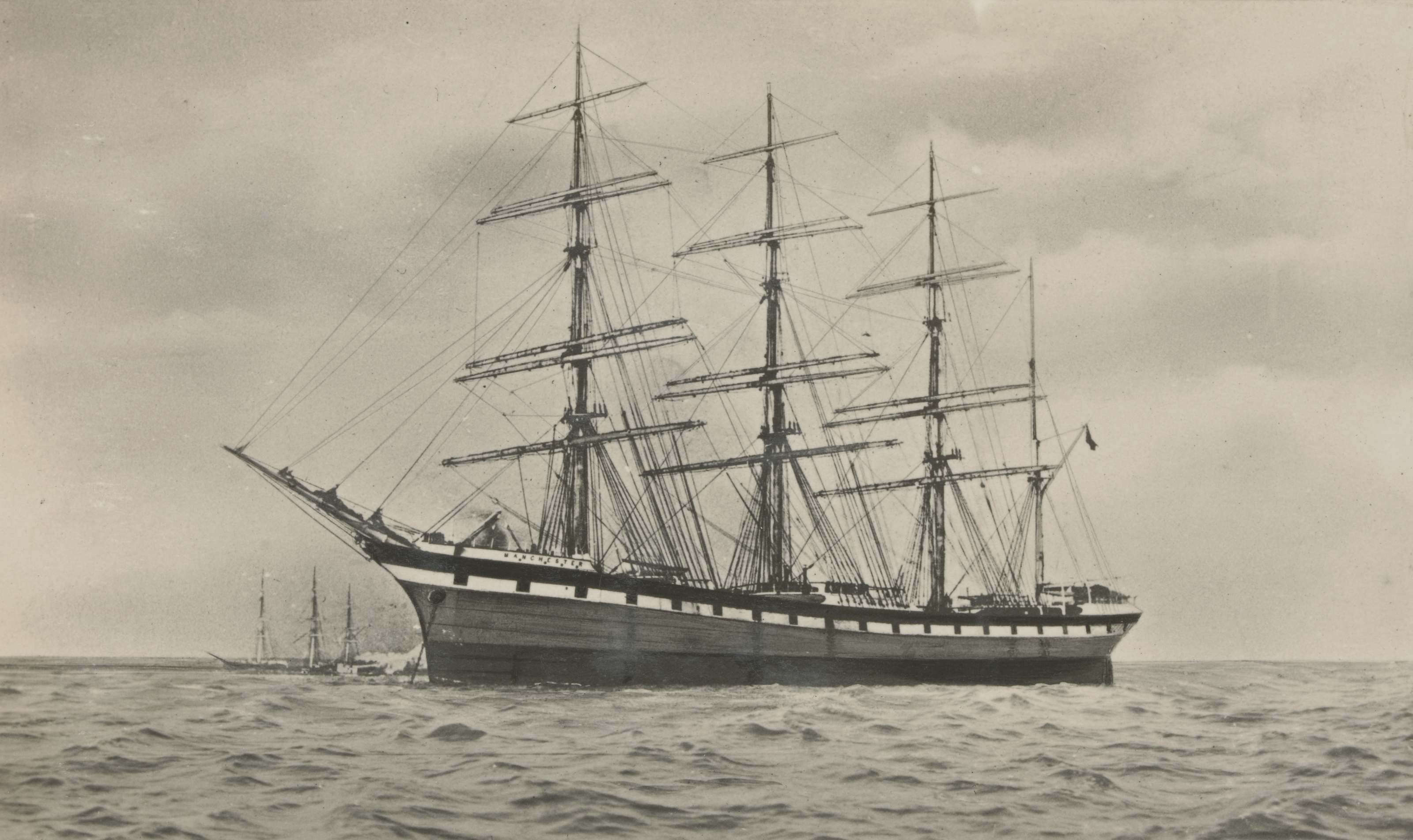 The four masted barque Manchester at anchor .